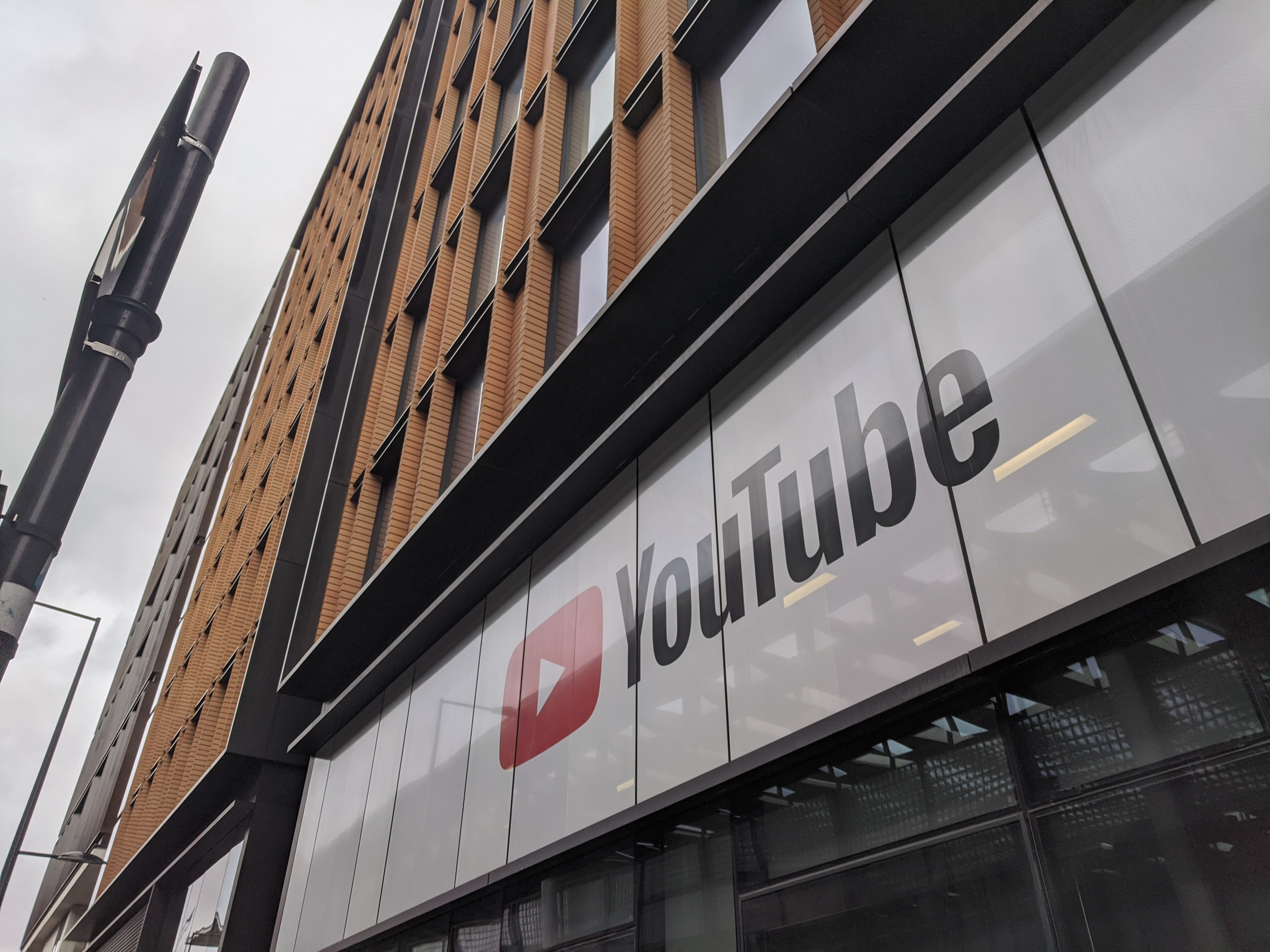 The exterior of YouTube Space Kings Cross - taken on 21 Feb 2020